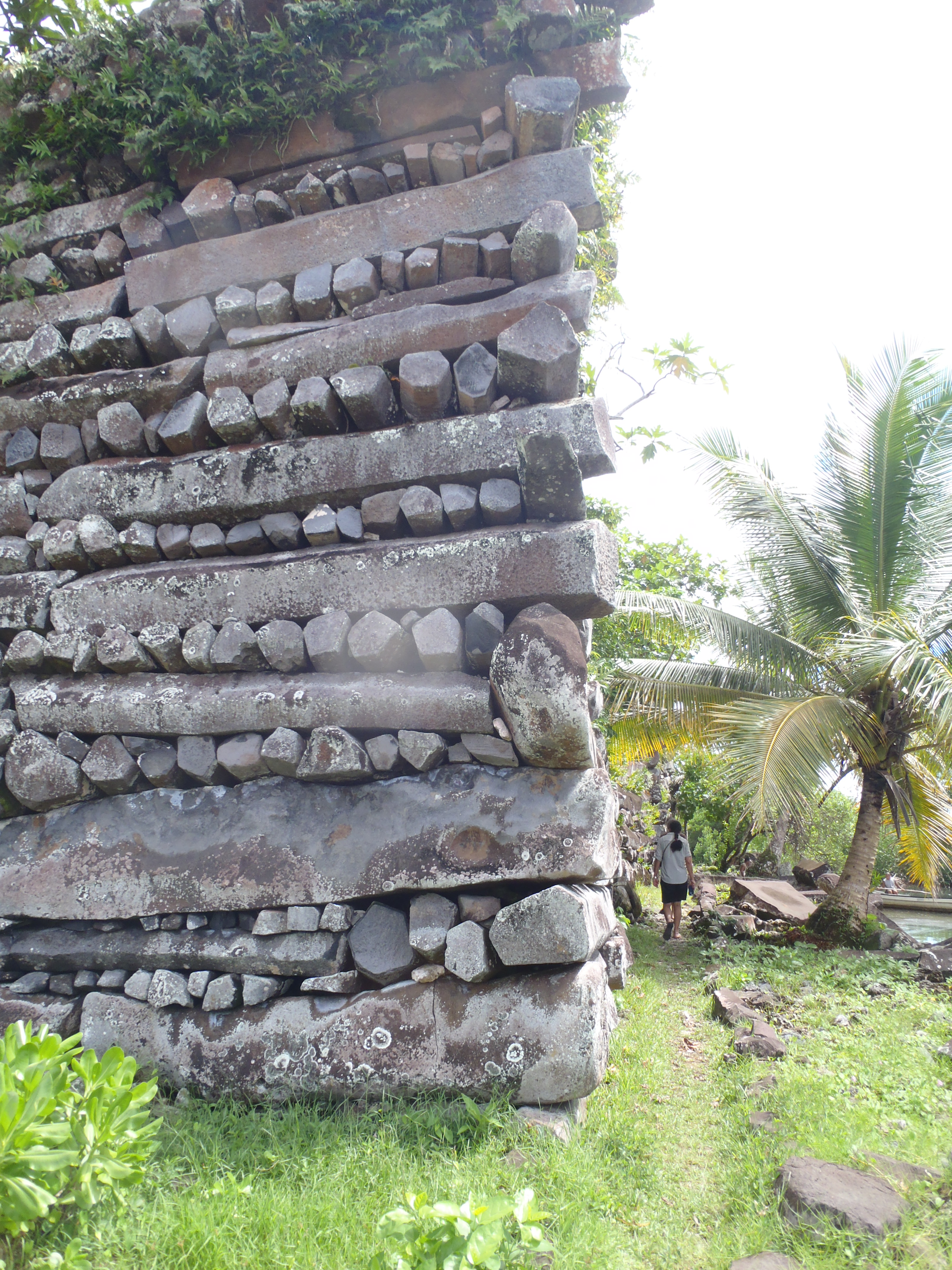 Nan Madol megalithic site, Pohnpei (Federated States of Micronesia) 12